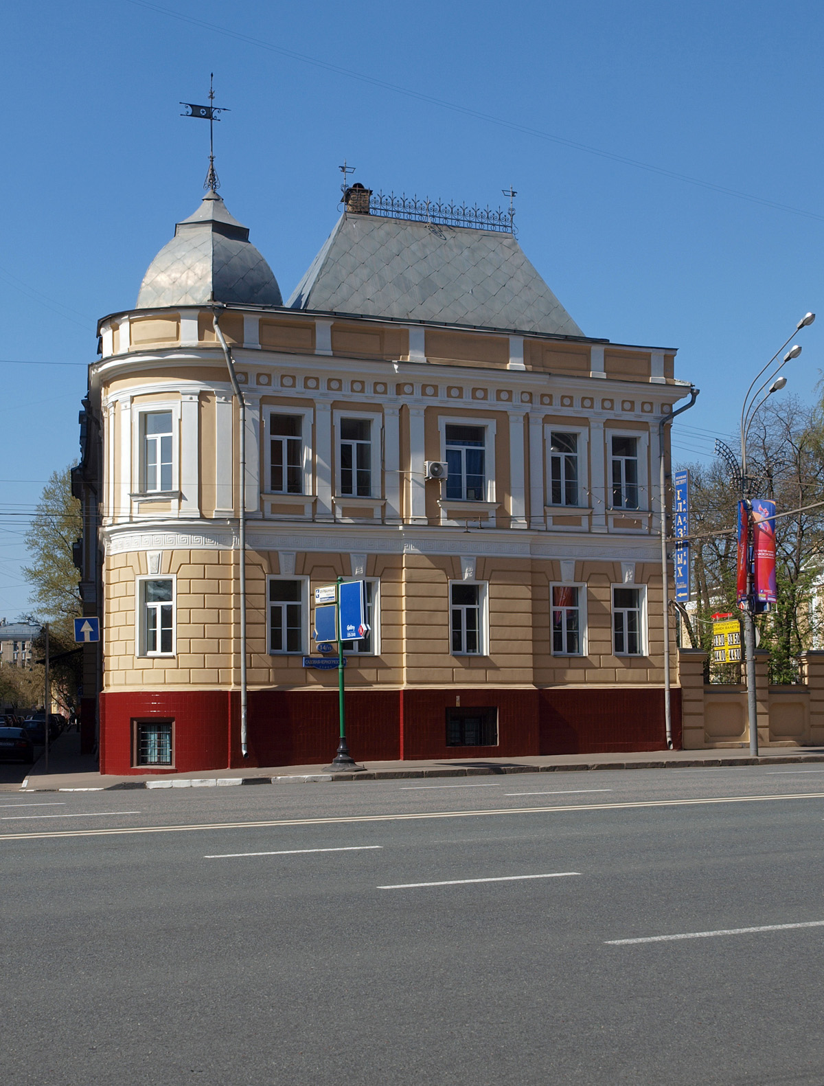 The old building of the Eye Hospital - corner of Garden Ring and Furmanny Lane, Moscow.